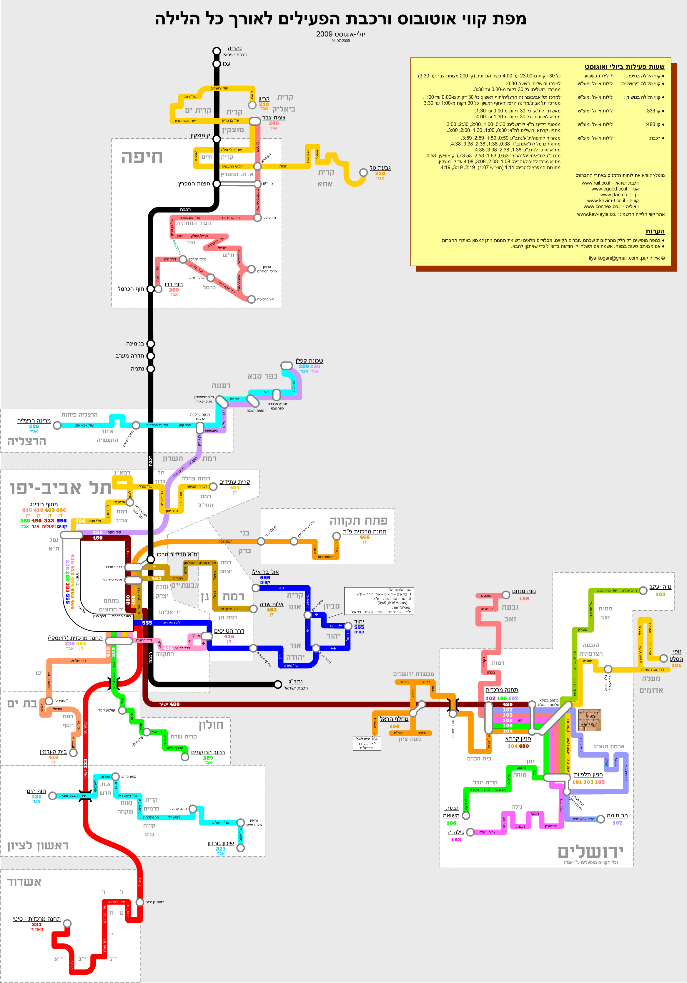 A schematic map of the public transportation in Israel that works through the night. The map also includes timetables. (Hebrew version)